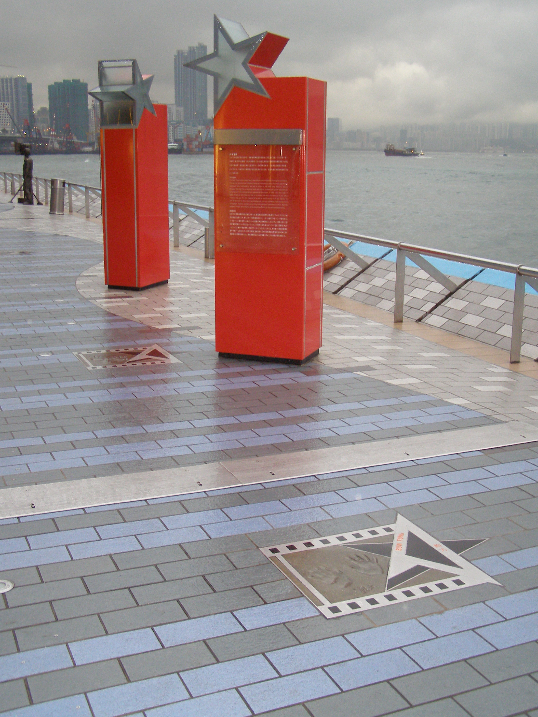 Markers along Avenue of Stars, TsimShaTsui East, Hong Kong SAR, P.R.O.C Author: Maccess Corporation assignee of Alex Timbol